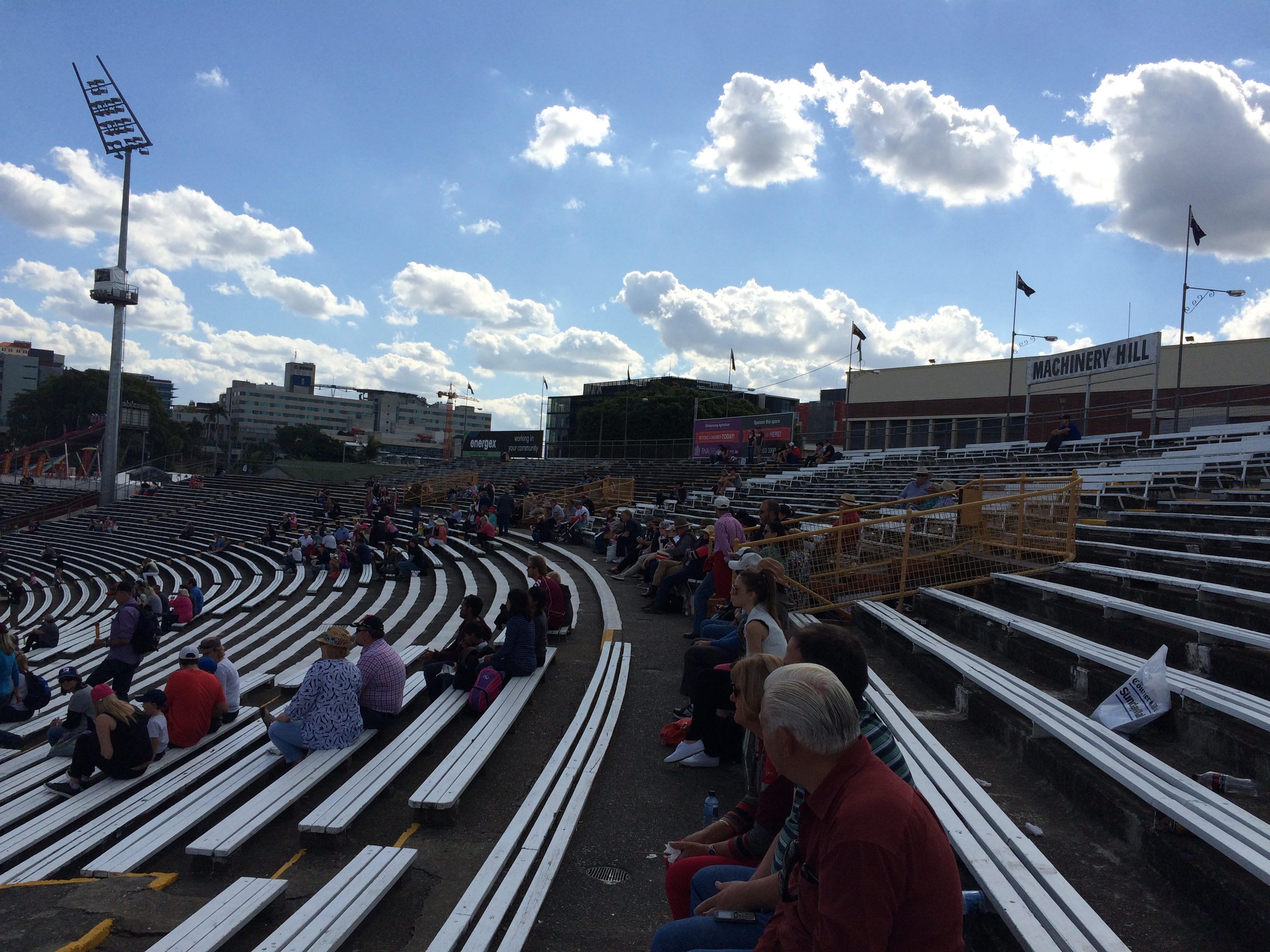 Machinery Hill Stand, Ekka, Brisbane, 2015